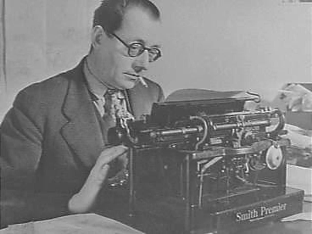 Dutch writer H.F. van der Kallen (Havank) in London (1944)